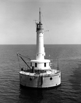 The Green Bay Harbor Entrance Light — in Green Bay, Brown County, Wisconsin.